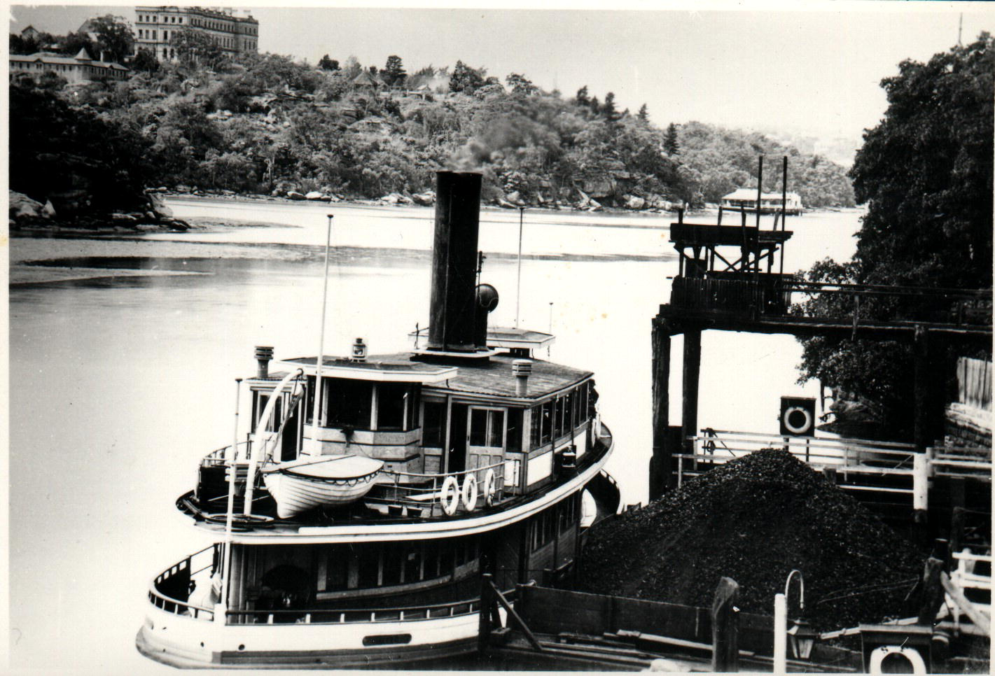 File 078/078714 DESCRIPTION The ferry has probably been 'bunkered' from the pile of coal seen alongside. DATE c 1915 FORMAT Digital image only. Many of the images in this collection are available as hi-res jpegs. Please contact the City of Sydney Archives (archives@ .au) on a case by case basis. RECORDSERIES Sydney Reference Collection CITATION Graeme Andrews 'Working Harbour' Collection: 78714 PROVENANCE City of Sydney Archives NOTES S105211